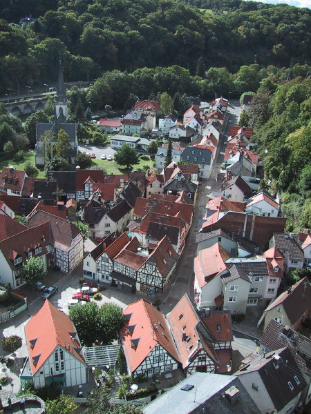 Renamed from "118-1819_IMG_1.JPG" Eppstein's half-timbered buildings as seen from the castle tower. Photo taken by Daniel Shakespear